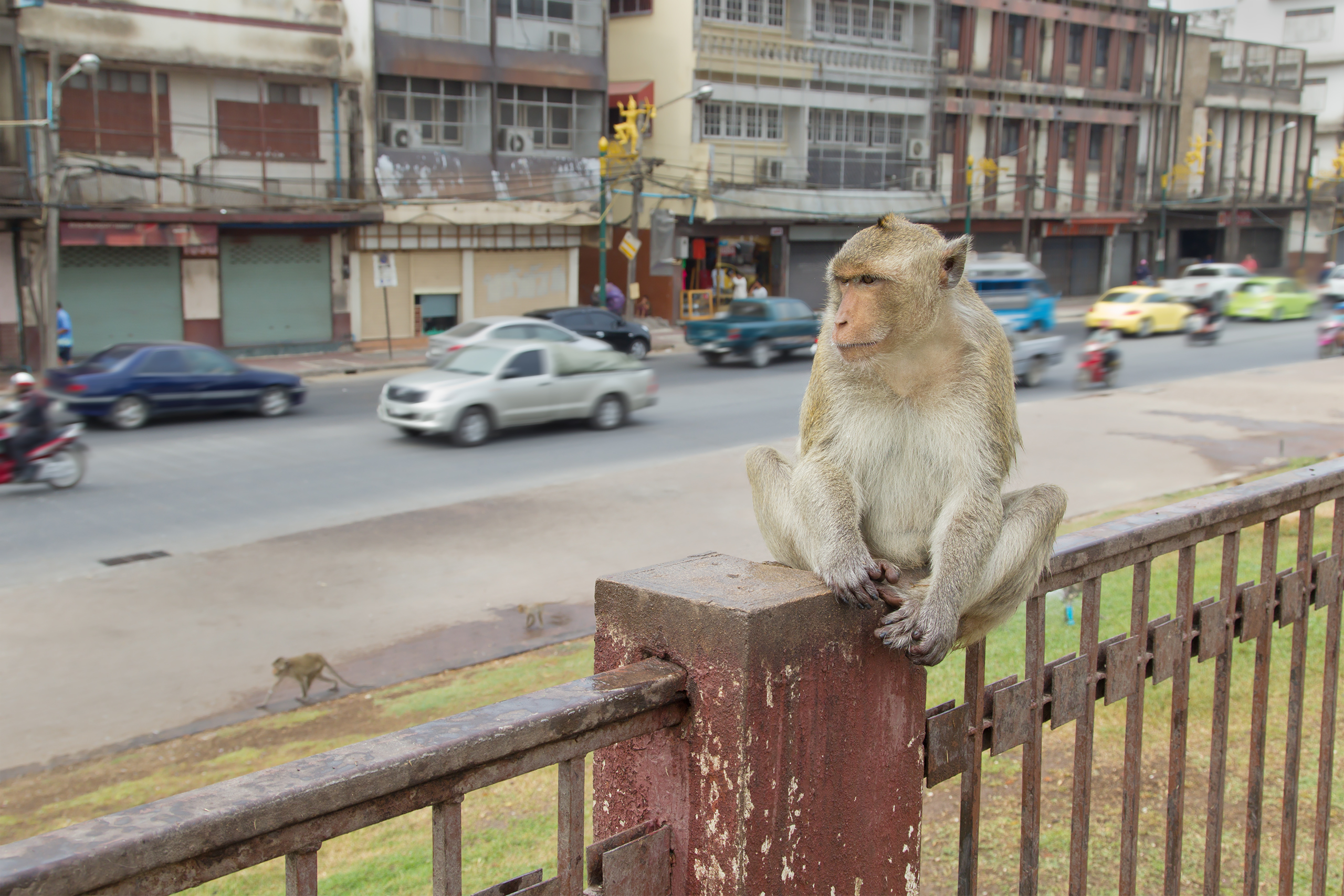 Crab-eating macaque (Macaca fascicularis) near Phra Prang Sam Yod in Lop Buri, Lopburi Province, Thailand